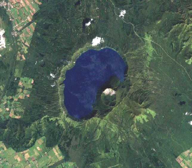 Lake Masyu in Japan, Landsat image from 1999